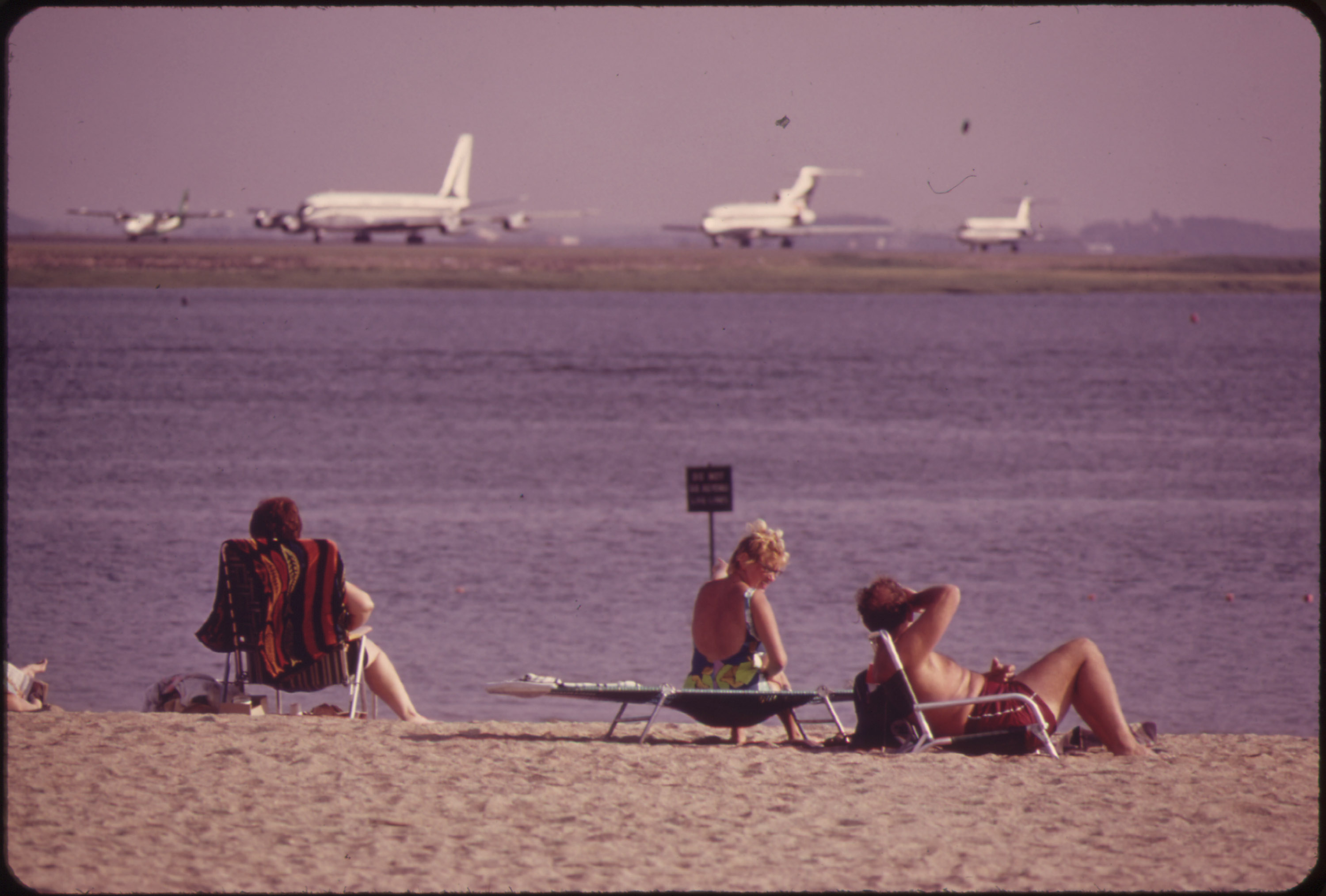 Constitution Beach - Within Sight and Sound of Logan Airport's Takeoff Runway 22r